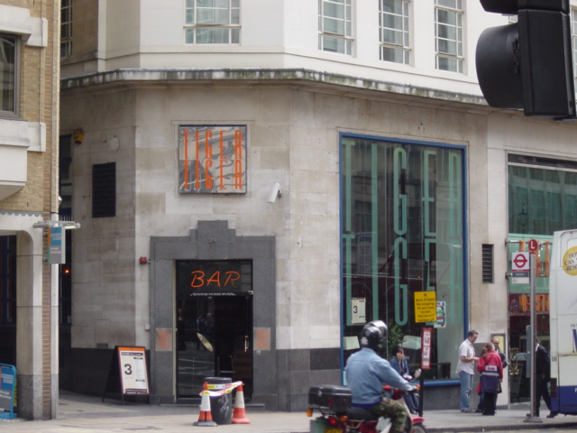 Tiger Tiger nightclub at Haymarket in London, site of car bomb discovery in w:2007 Haymarket bomb plot